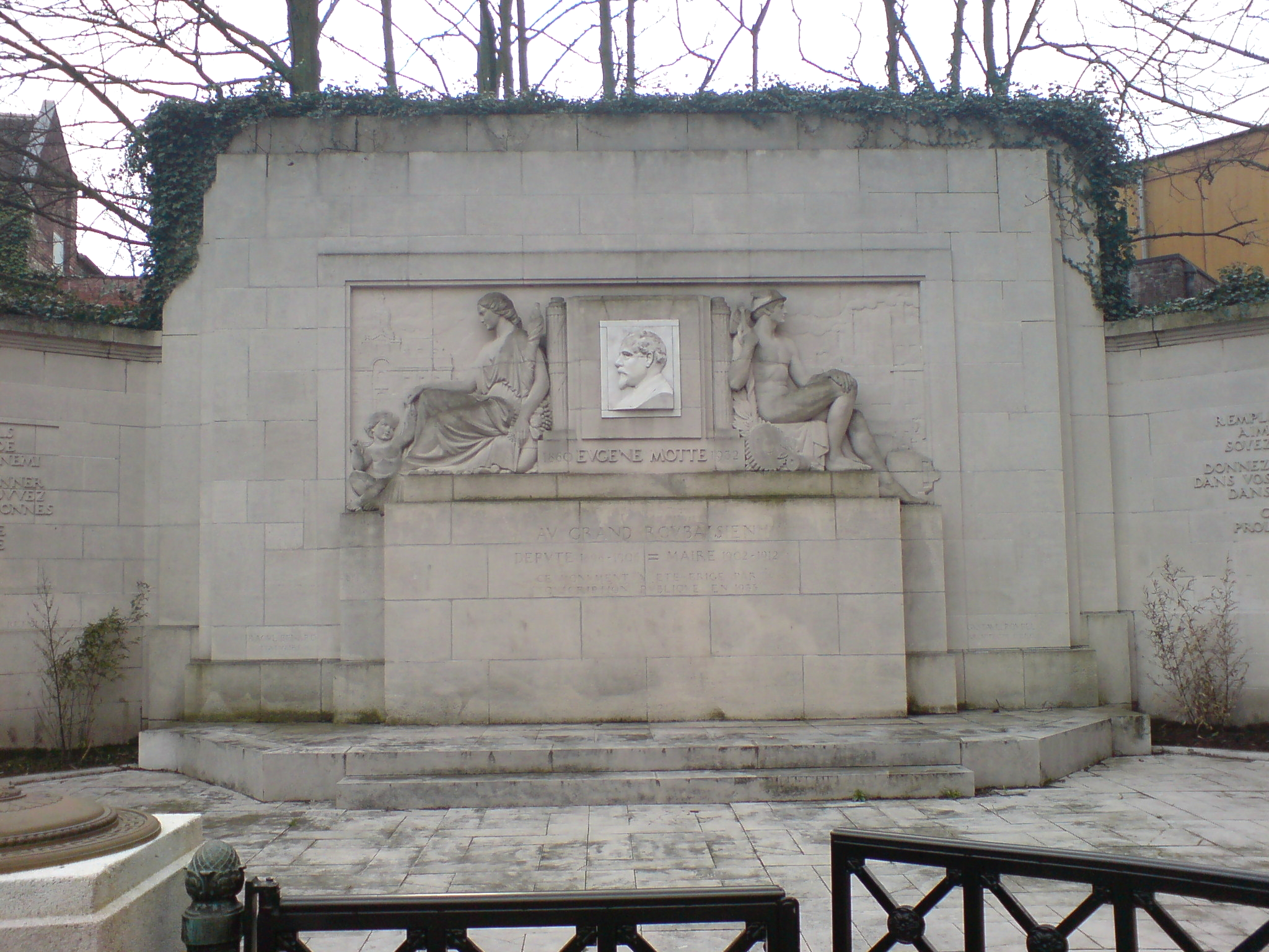 Memorial for the mayor of Roubaix/France (1902—1912) Eugène Motte in Roubaix